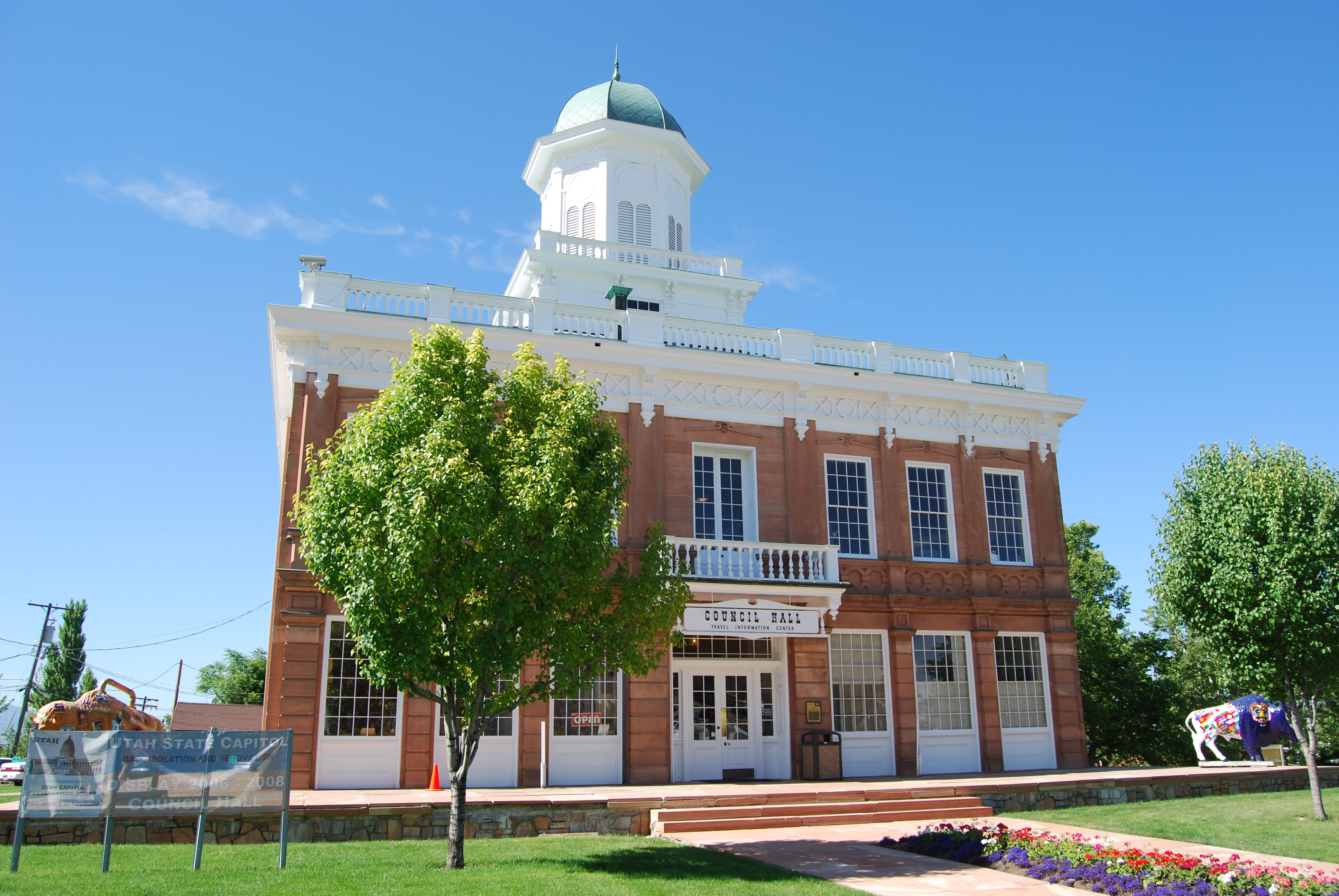 Salt Lake City Council Hall, Salt Lake City, UT